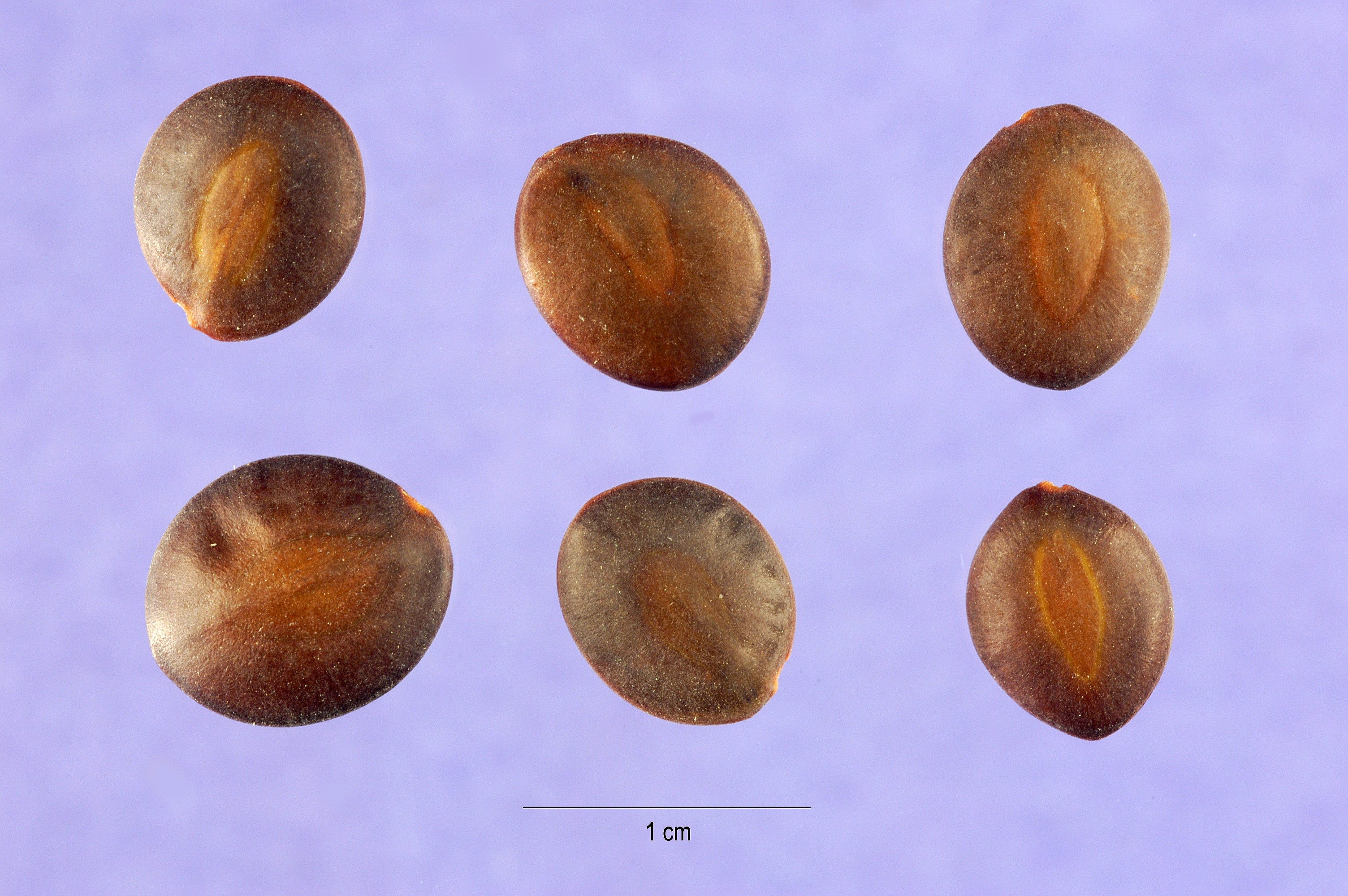 Catclaw Acacia. Seeds. Tucson, AZ, USA.